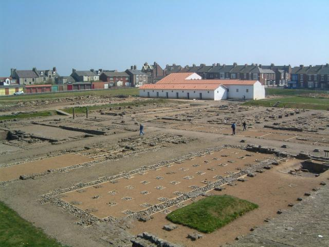 Roman Fort, The Lawe, South Shields, Tyne & Wear.